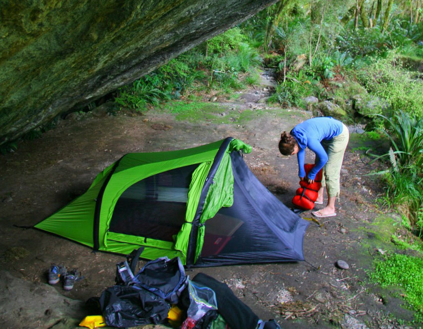 setup of NEMO Morpho inflatable airbeam tent in Copland Track, NZ